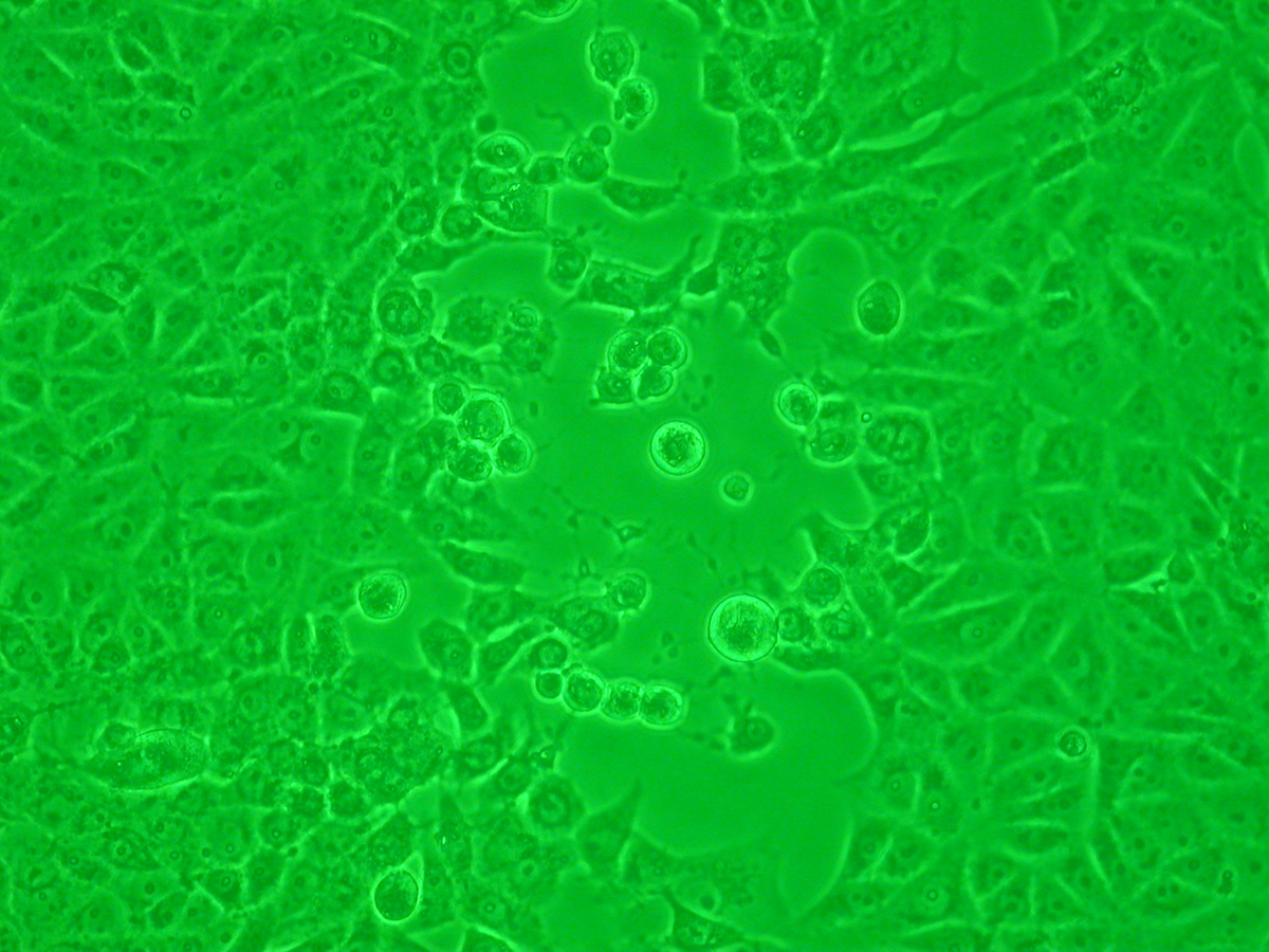 "Cell rounding"-type cytopathic effect induced by the virus infection. (KOS, a strain of HSV-1, was infected within Vero cells). Phase-contrast microscopic image of 100-fold magnification under green light.